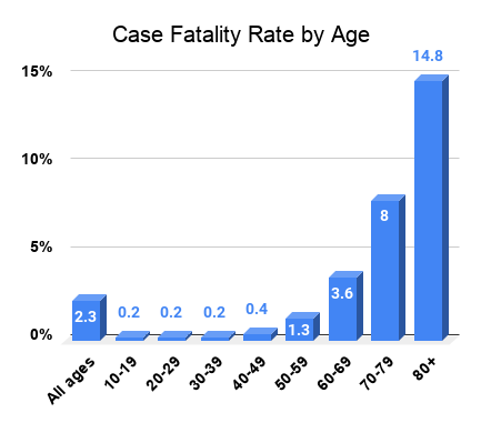 Illustration of Severe Acute Respiratory Syndrome Coronavirus 2 from data published by the China CDC depicting the Case Fatality Rate by age range.